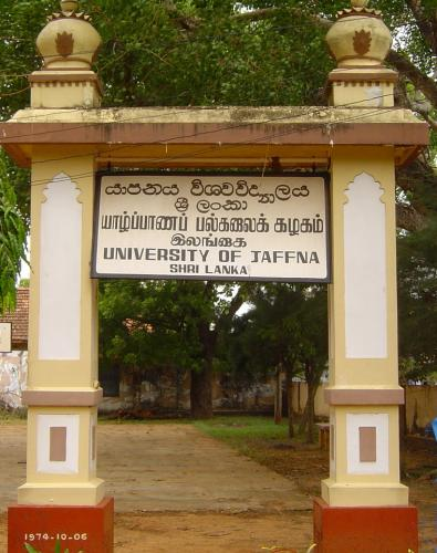 Jaffna University Categories:Jaffna